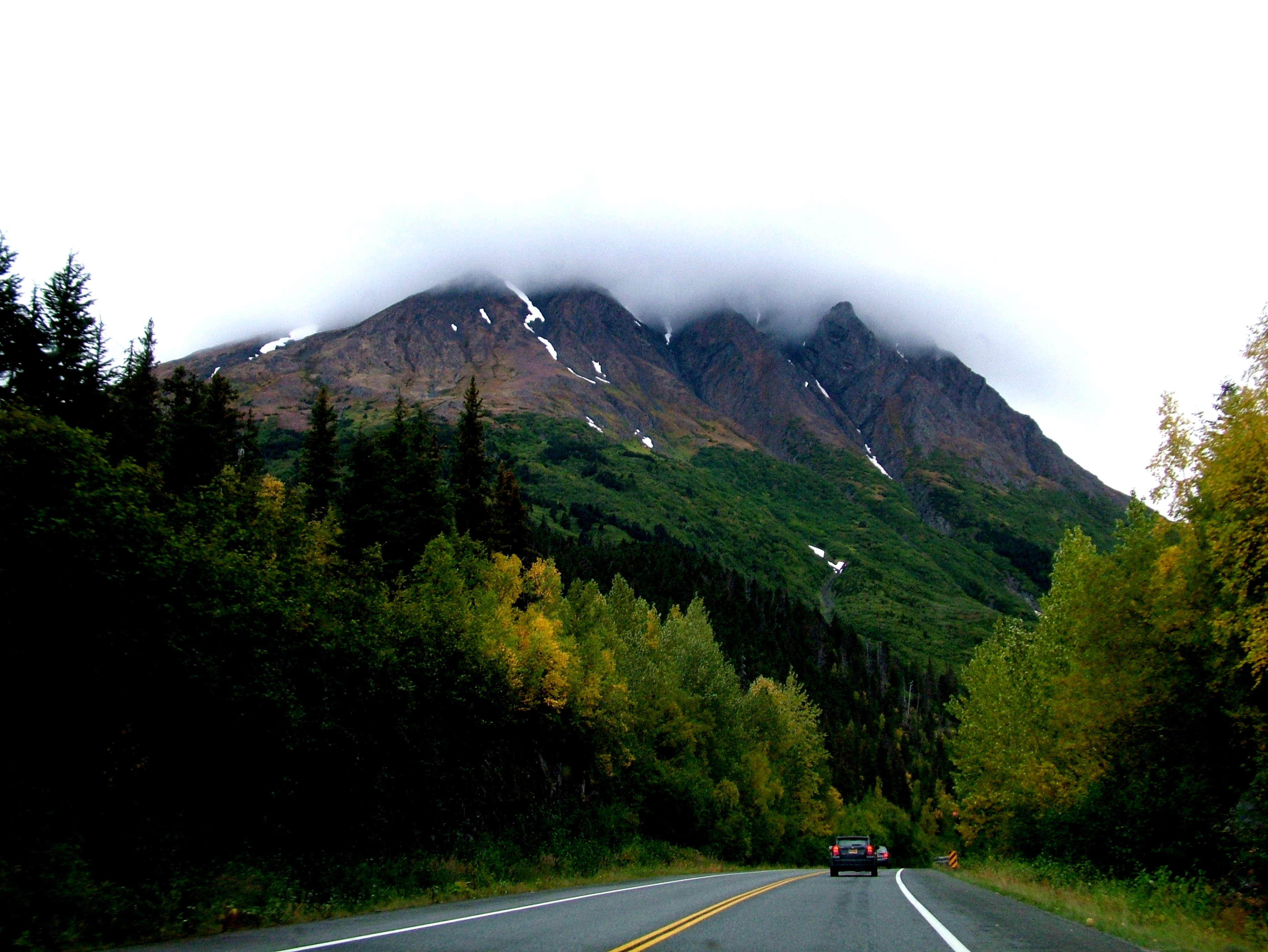 Looking northward on the Seward Highway, while in the Kenai Peninsula, in the U.S. state of Alaska. The Kenai Mountains can be seen in the background.